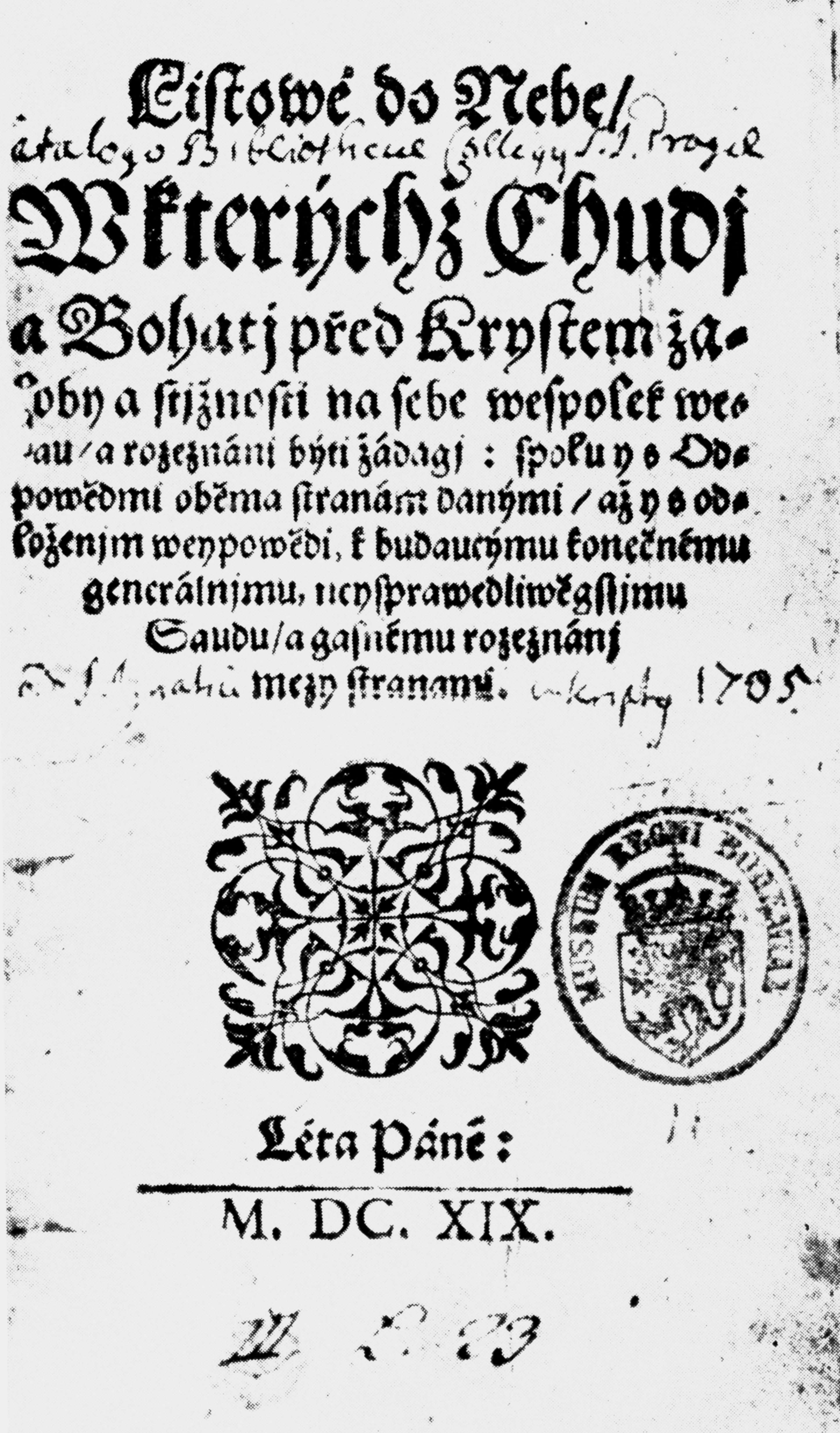 John Amos Comenius: Listové do nebe. Cover of the first edition 1619.